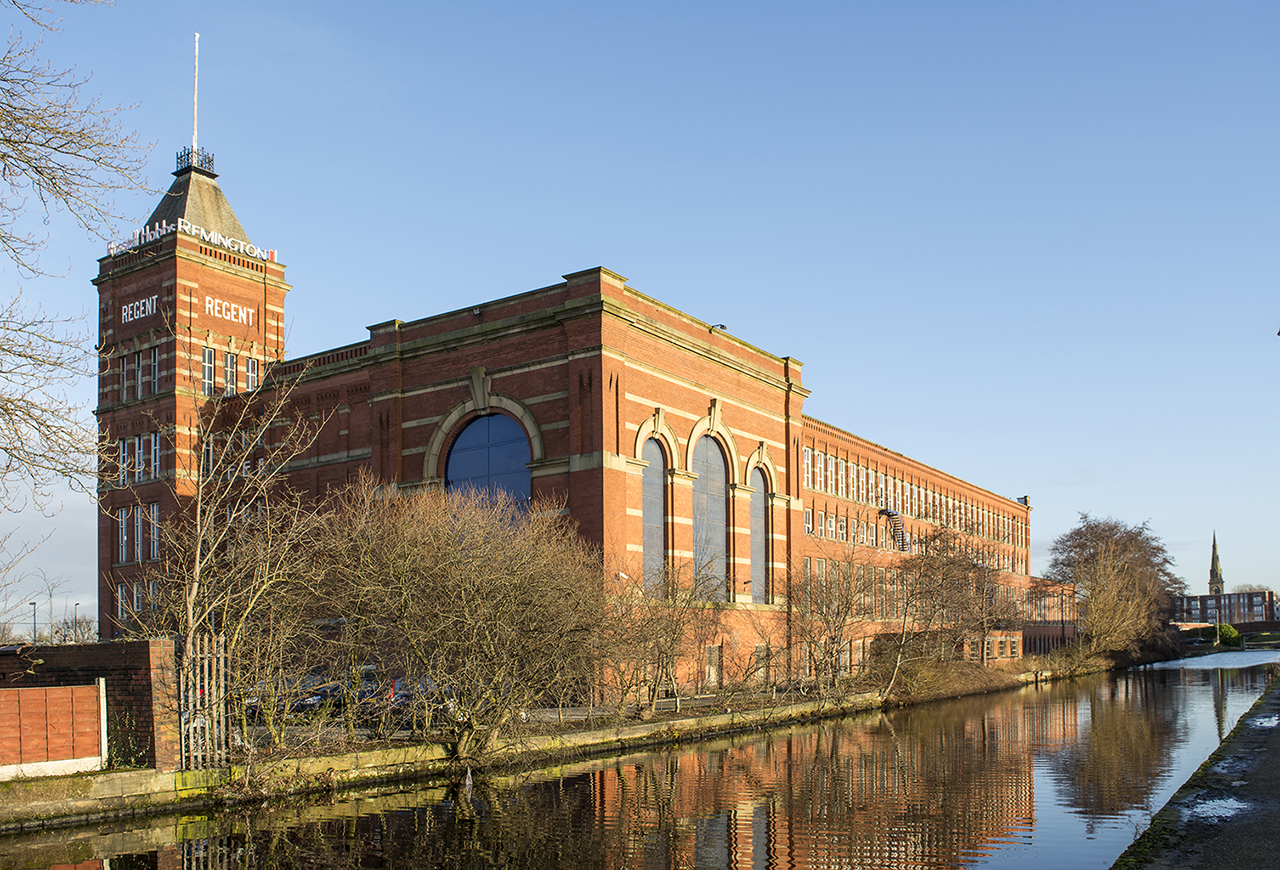 Reagent Mill view